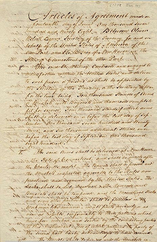 First contract of inventor Eli Whitney as a gun manufacturer. Copy of contract with the United States government, signed by Oliver Wolcott, Jr., Secretary of the United States Treasury. Courtesy of the Yale University Manuscripts & Archives Digital Images Database, Yale University, New Haven, Connecticut. Retouched by MarmadukePercy.